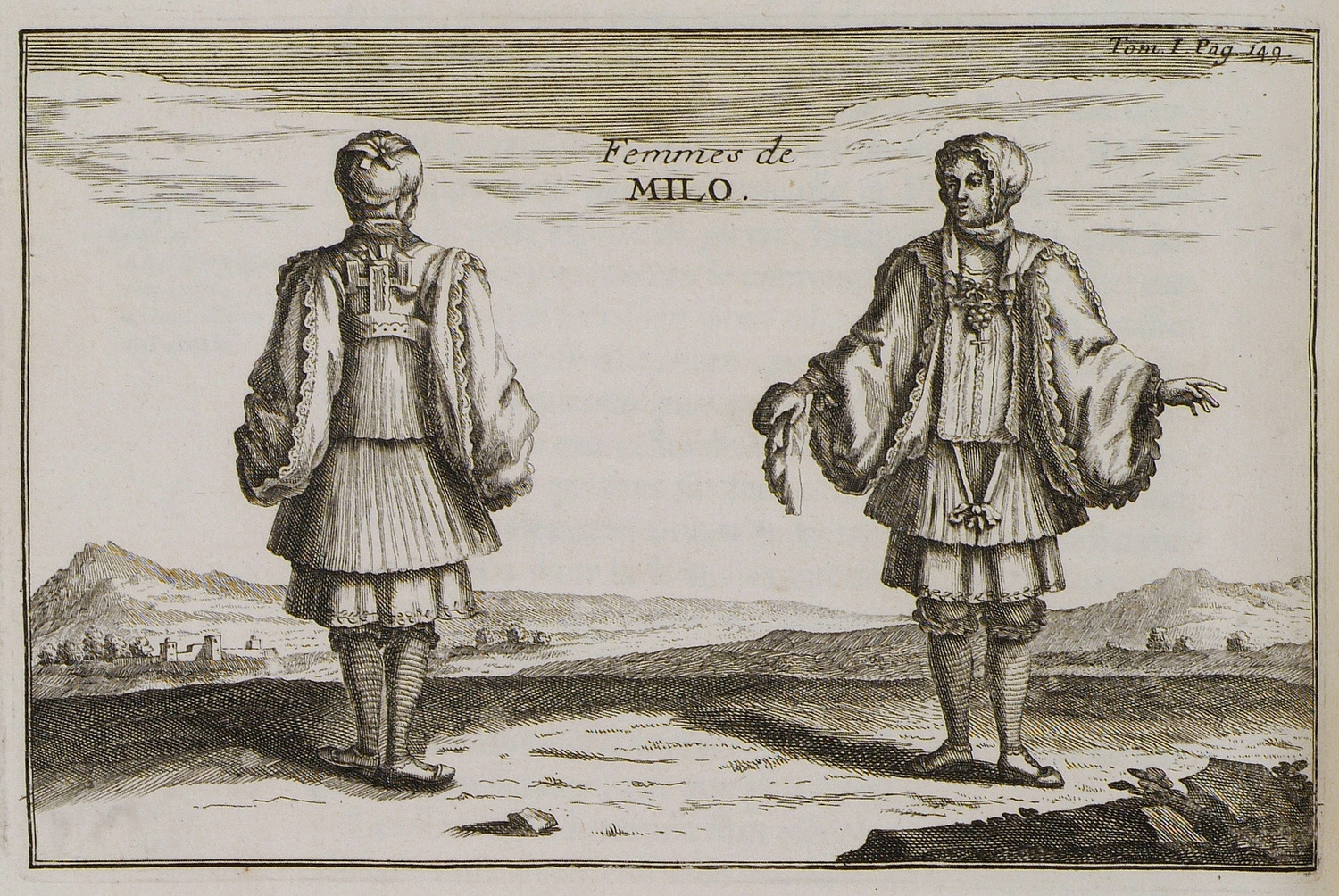 Joseph Pitton de Tournefort. Relation d’un Voyage du Levant, fait par ordre du Roy. Contenant l’histoire ancienne & moderne de plusieurs Isles de l’Archipel, de Constantinople…, vol. I, Paris, Imprimerie Royale, 1717.